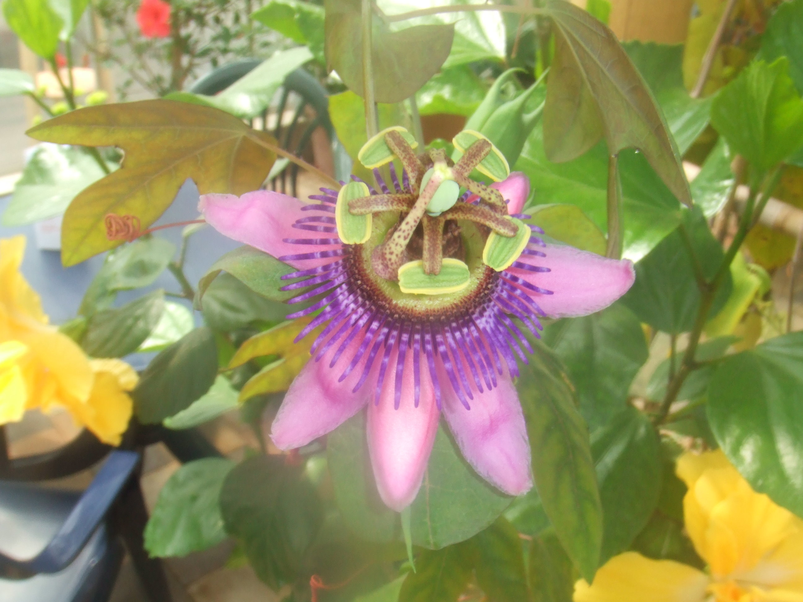 Passiflora picturata, picture taken at Passiflorahoeve in Harskamp, The Netherlands